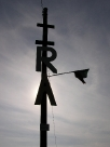 Ireland: towards Peace IRA, a flag in North Ireland Digital photo by Pierfranco Ravotto, summer 2004